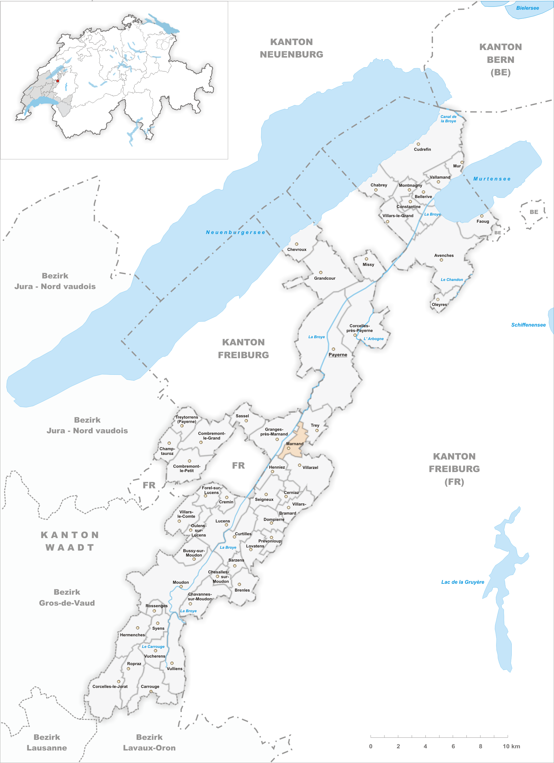 Municipality Marnand